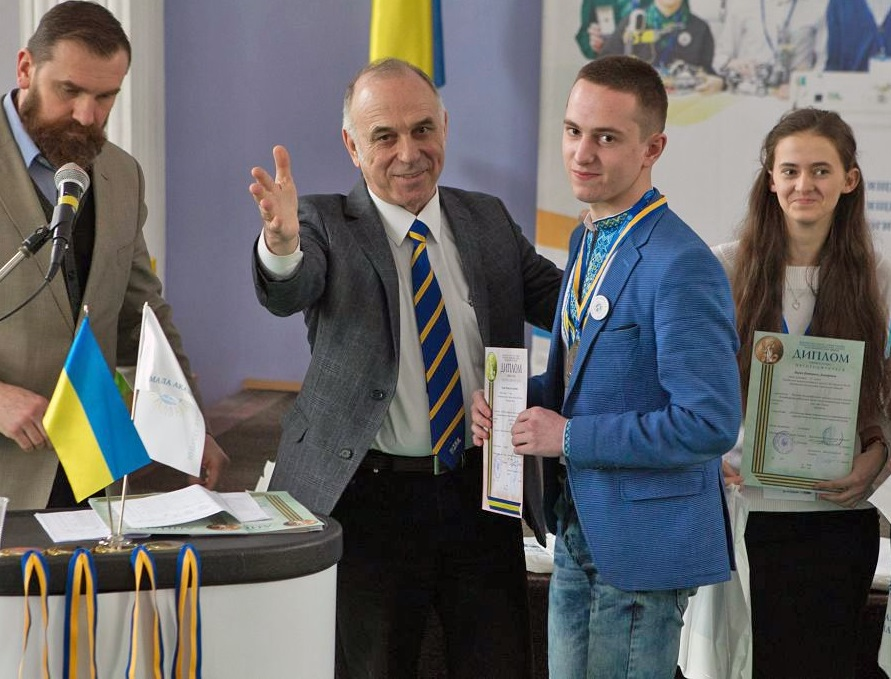 Chairman of judge professor Valentyn Khilchevskyi rewards the schoolchildren of winners of competition of the advanced studies for the sections of hydrology, Kyiv, Ukraine, 2017